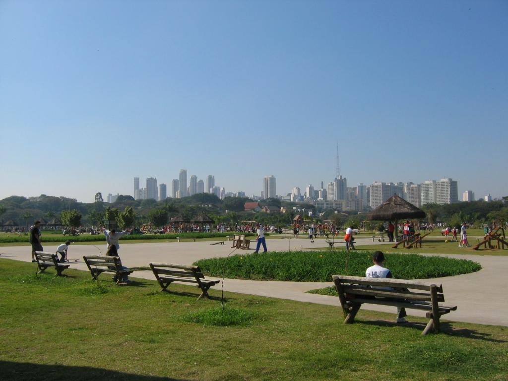 Park Vila Lobos